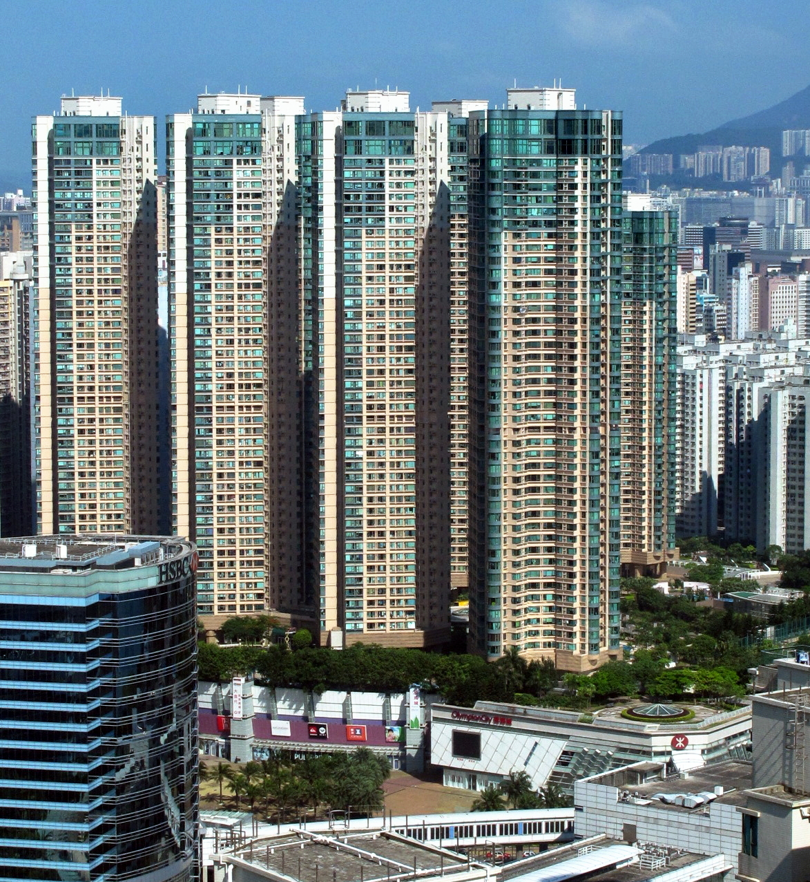 HK Olympic Station Central Park